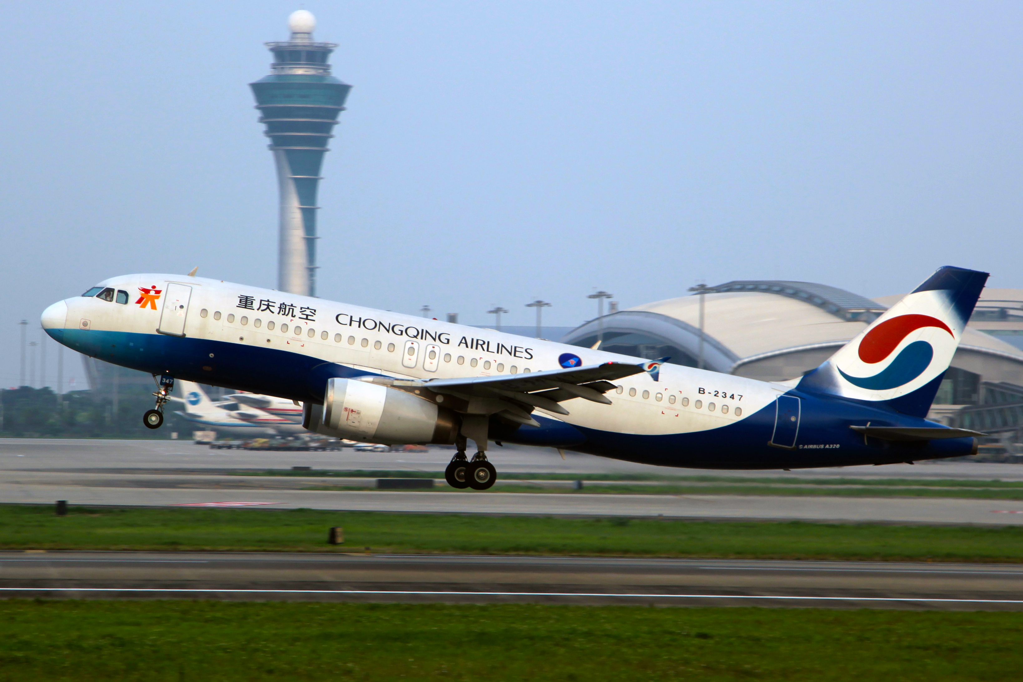 B-2347 | Chongqing Airlines | Airbus A320-233 | Guangzhou Baiyun International Airport [CAN]